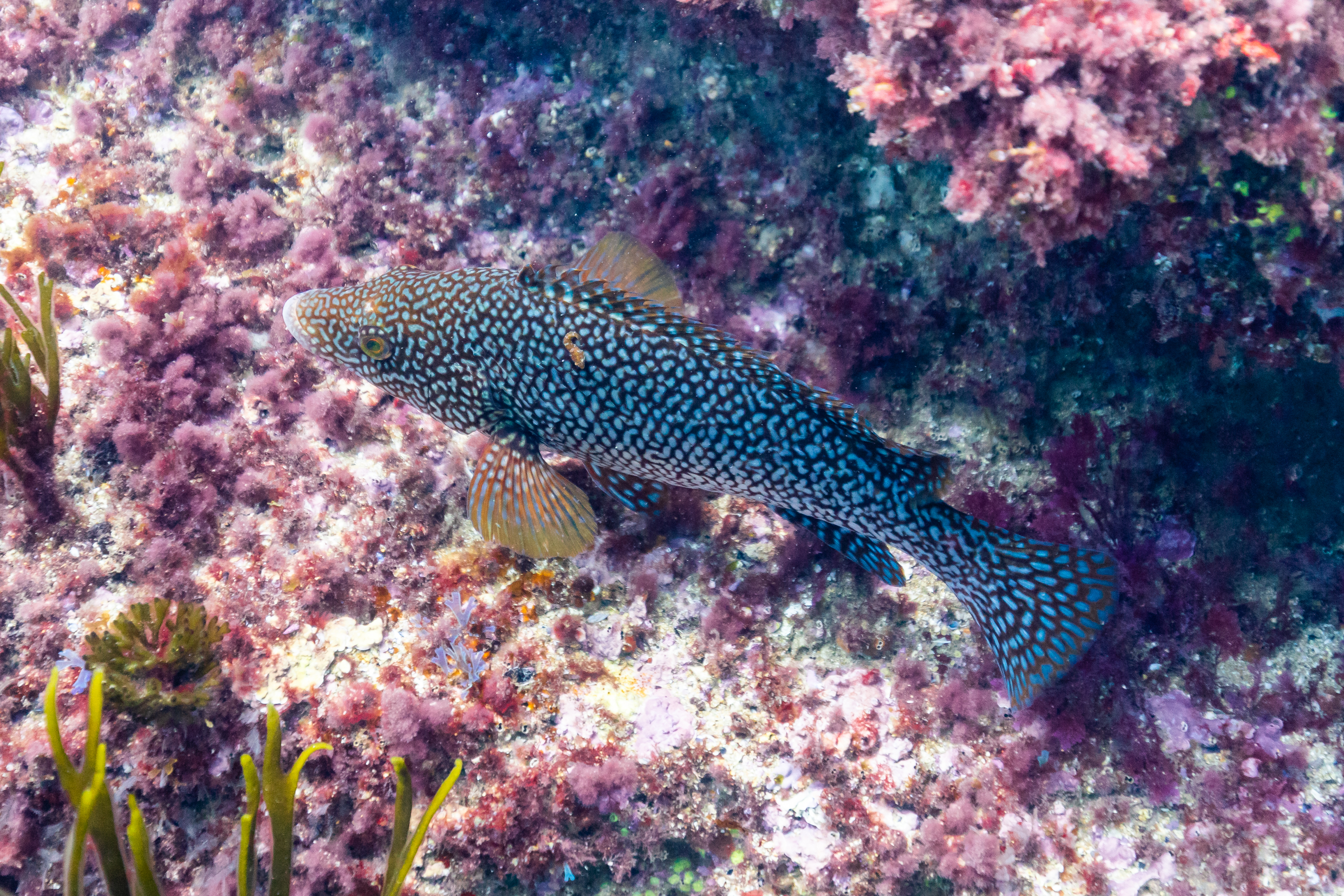 Ballan wrasse (Labrus bergylta), Mouro Island, Santander, Spain